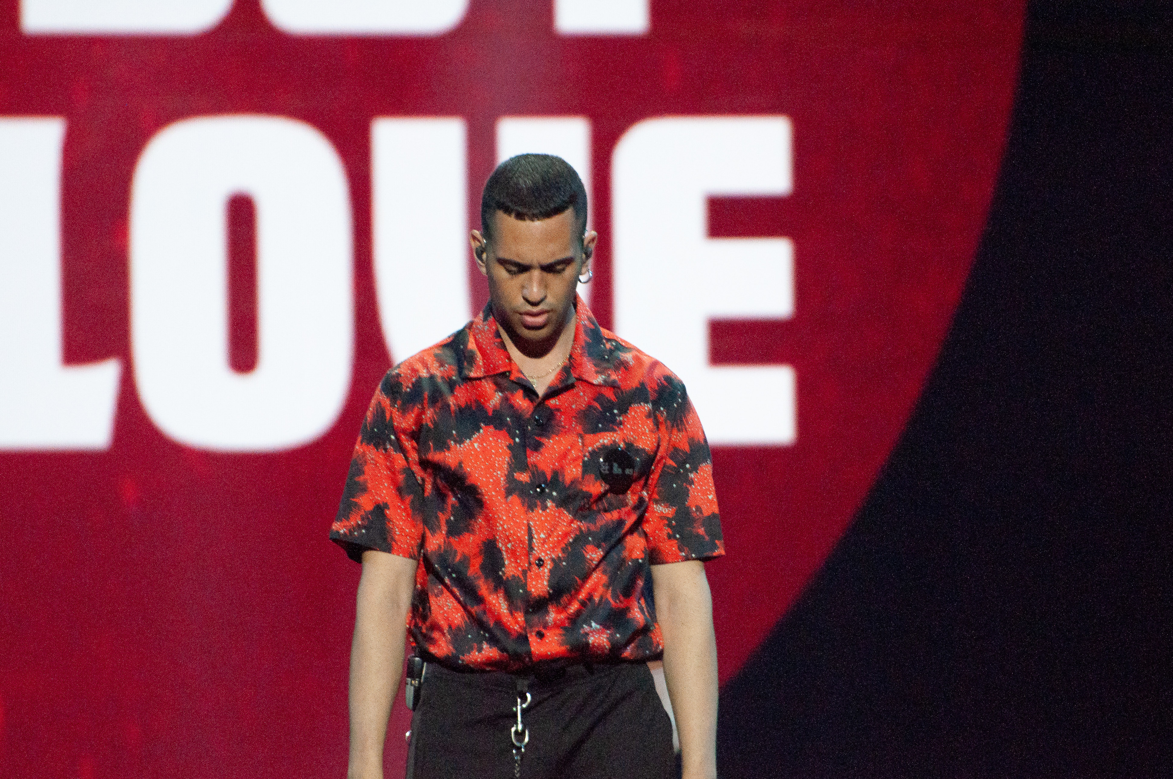 Italian singer-songwriter Mahmood at the 2019 Eurovision Song Contest Grand Final Dress Rehearsal.